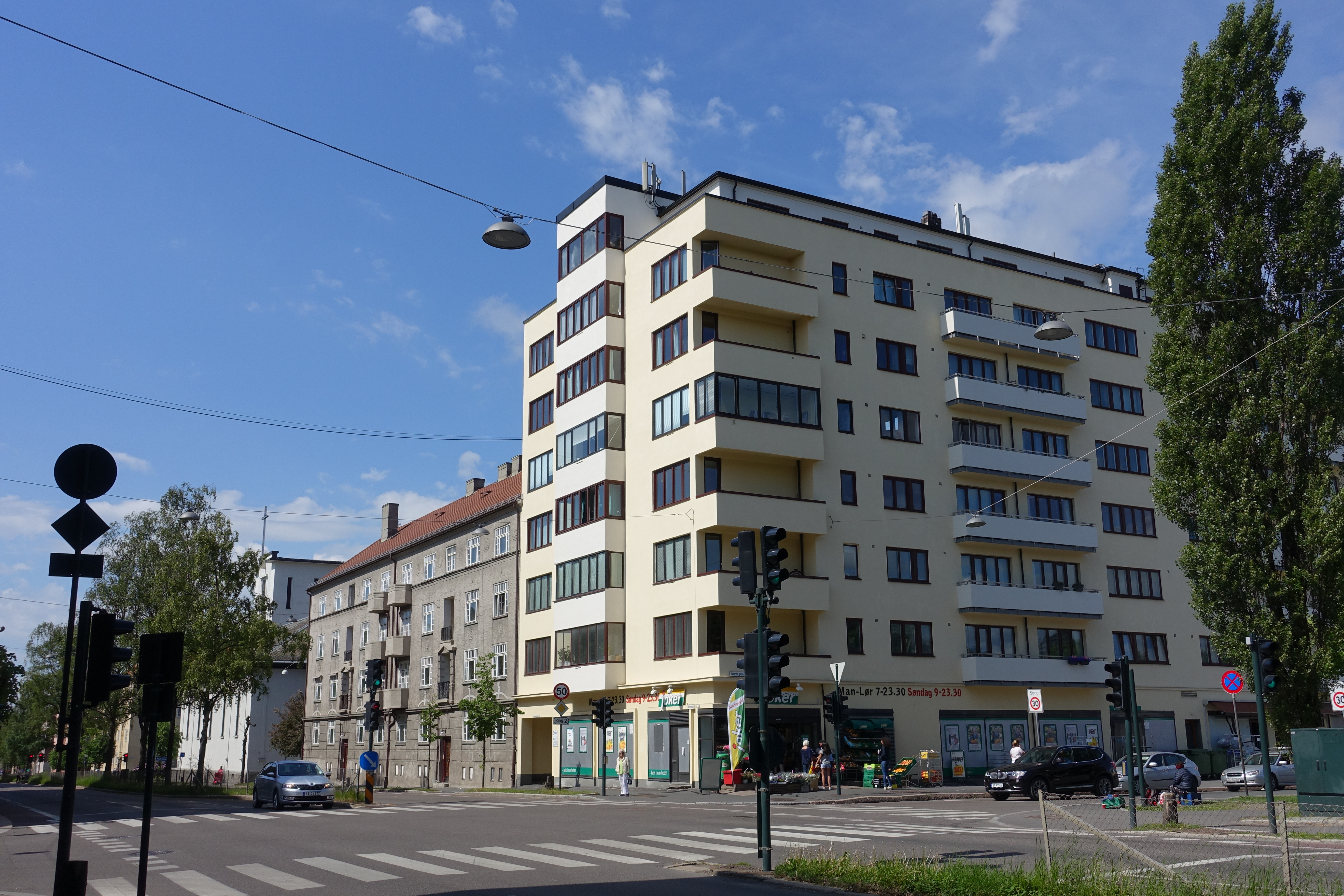 Kirkeveien 90 in Oslo, Norway